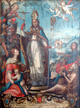 Retouched from a painting of San Fermín (Saint Fermin, Sanctus Ferminus; patron saint of Pamplona's "Running of the Bulls") en la escuela quiteña (in the style of the School of Quito; Colonial School)